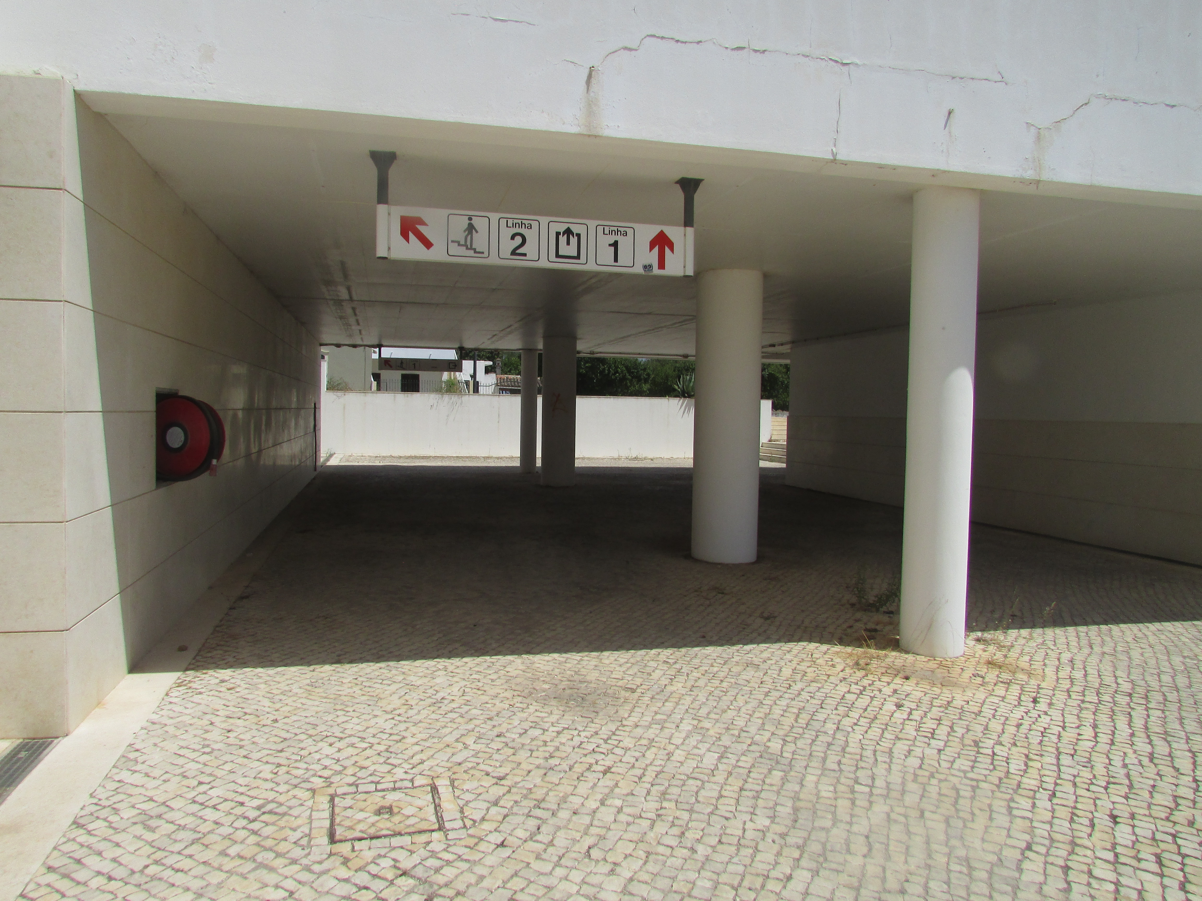 The pedestrian underpass of the Parque Das Cidades railway station near the village of Esteval in the municipality of Loulé, Algarve, Portugal. This station was completed in 2004 as the rail link to the Algarve Stadium which was built for the Euro 2004 football tournament. Parque das Cidades was meant to be a complex built around Algarve Stadium which was never completed. The station nowadays is a quiet backwater with very little use.